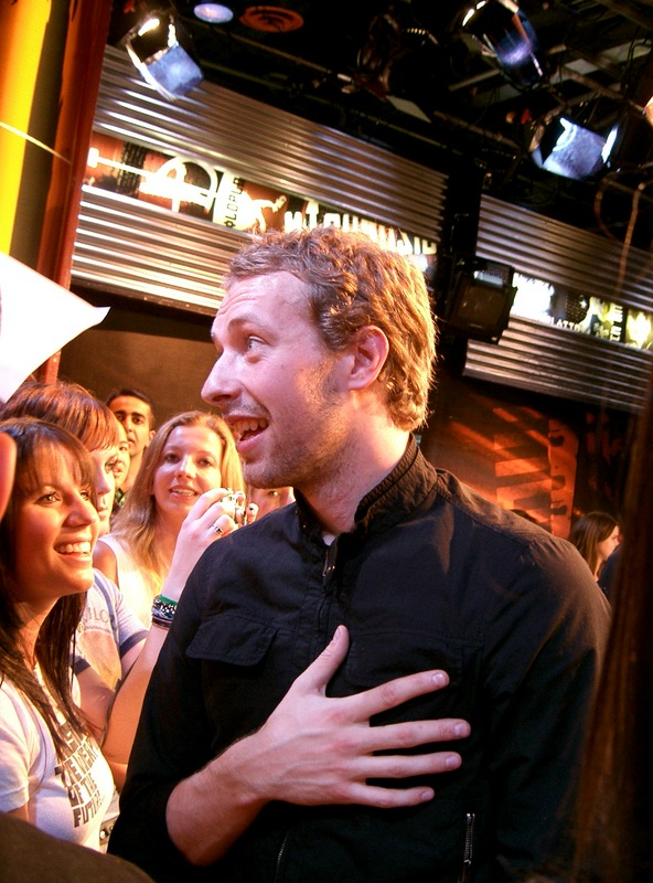 Chris Martin, lead singer of Coldplay in 2005